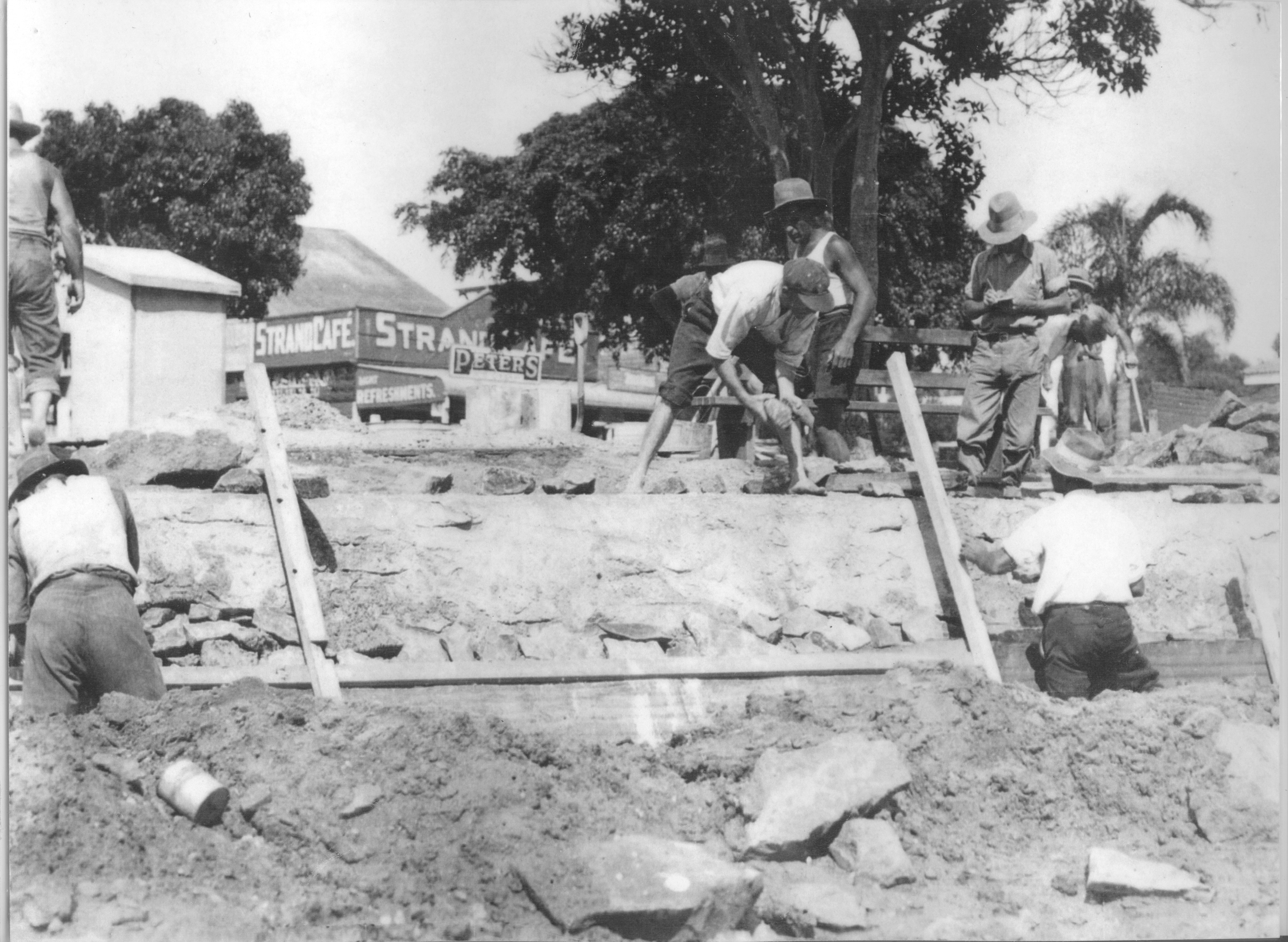 Susso workers constructing the stone wall on Wynnum foreshore.